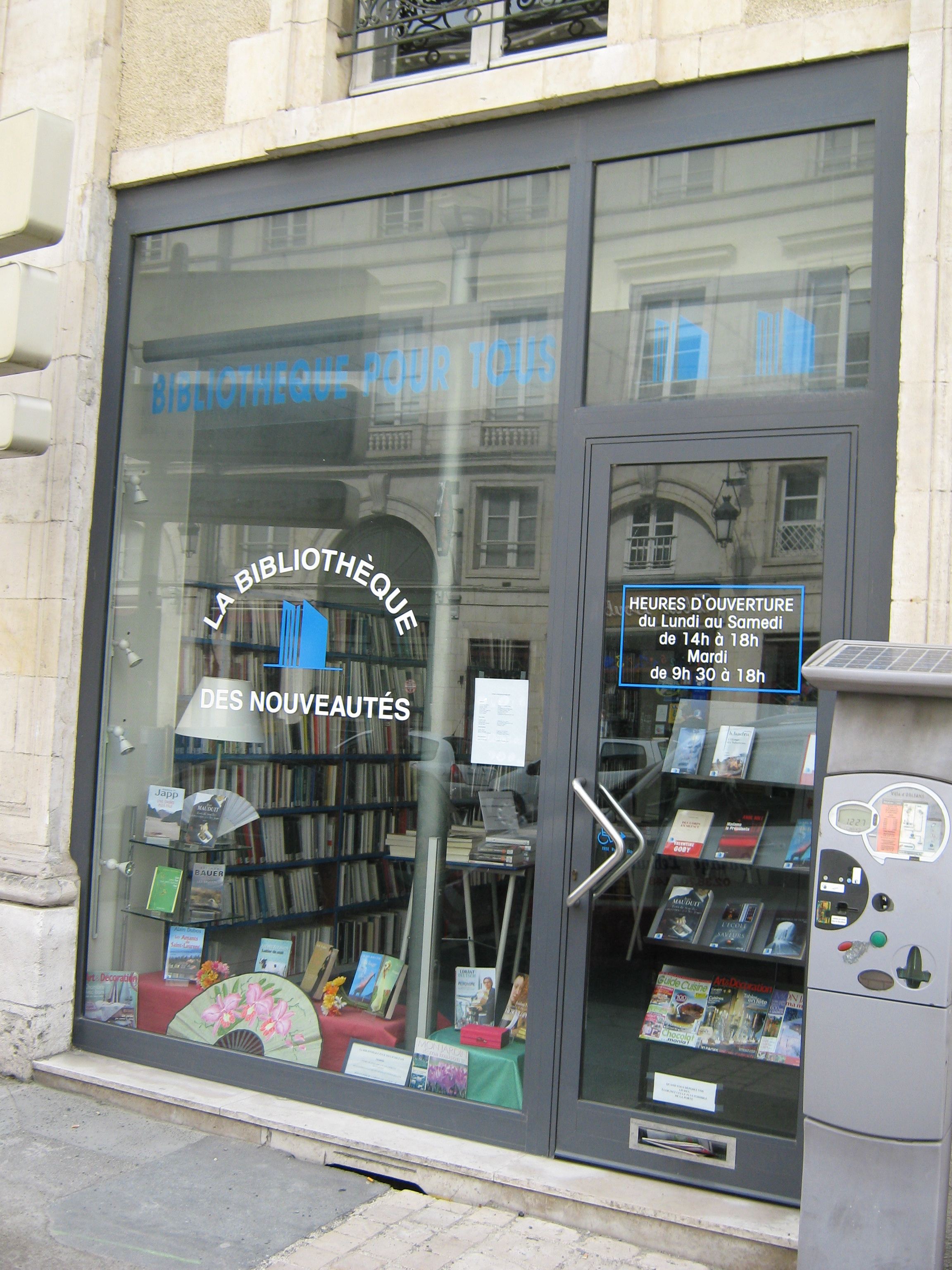 "Bibliothèque pour tous" ("Library for evrybody") in rue Jeanne d'Arc, Orléans, France. "Culture et bibliothèque pour tous" is a non profit organization which manages libraries all over France